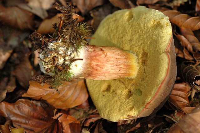 Xerocomellus pruinatus from Commanster, Belgium. The determination of the species shown in this picture has been verified.